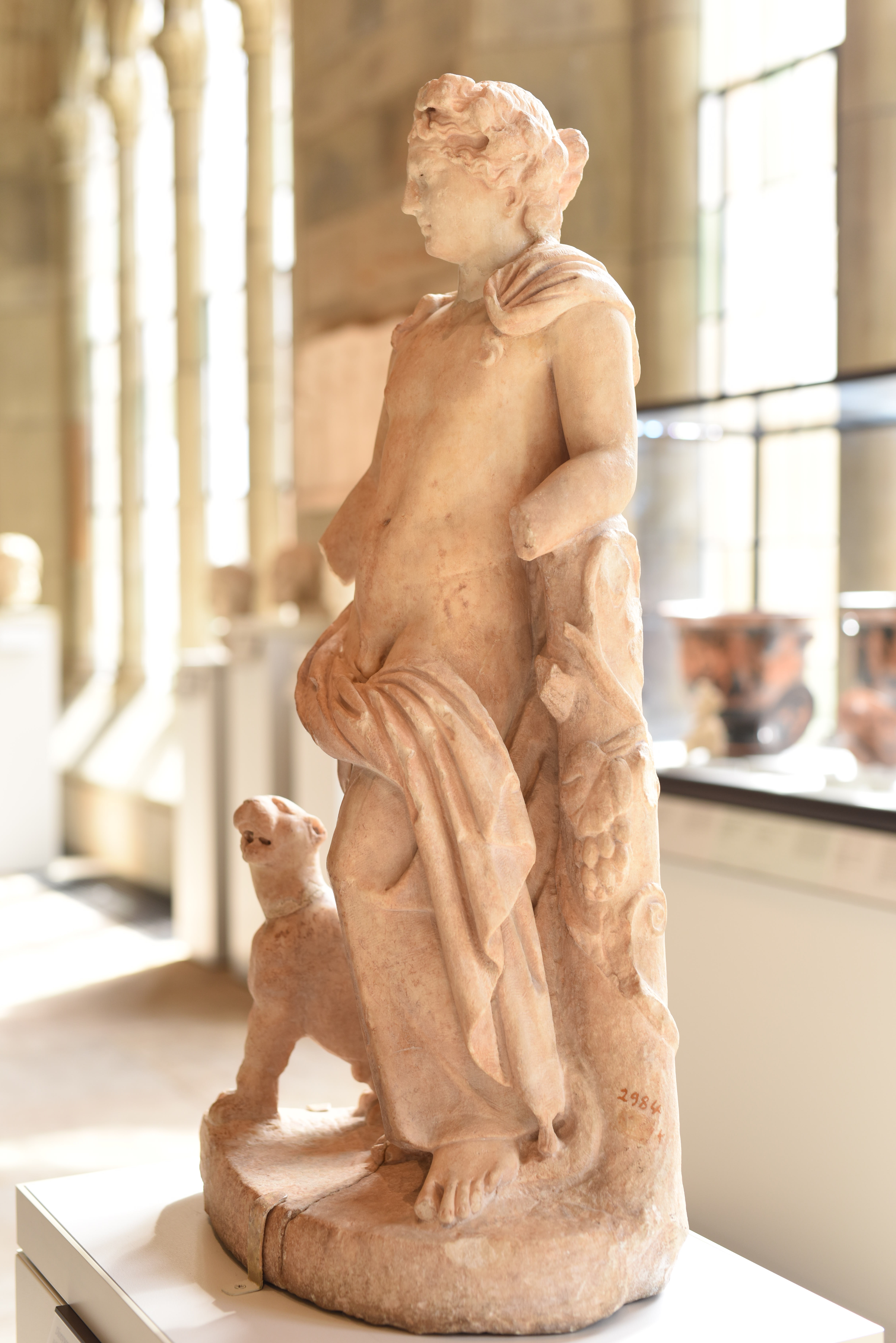 Sculpture from the Ancient Art Collection at Yale.